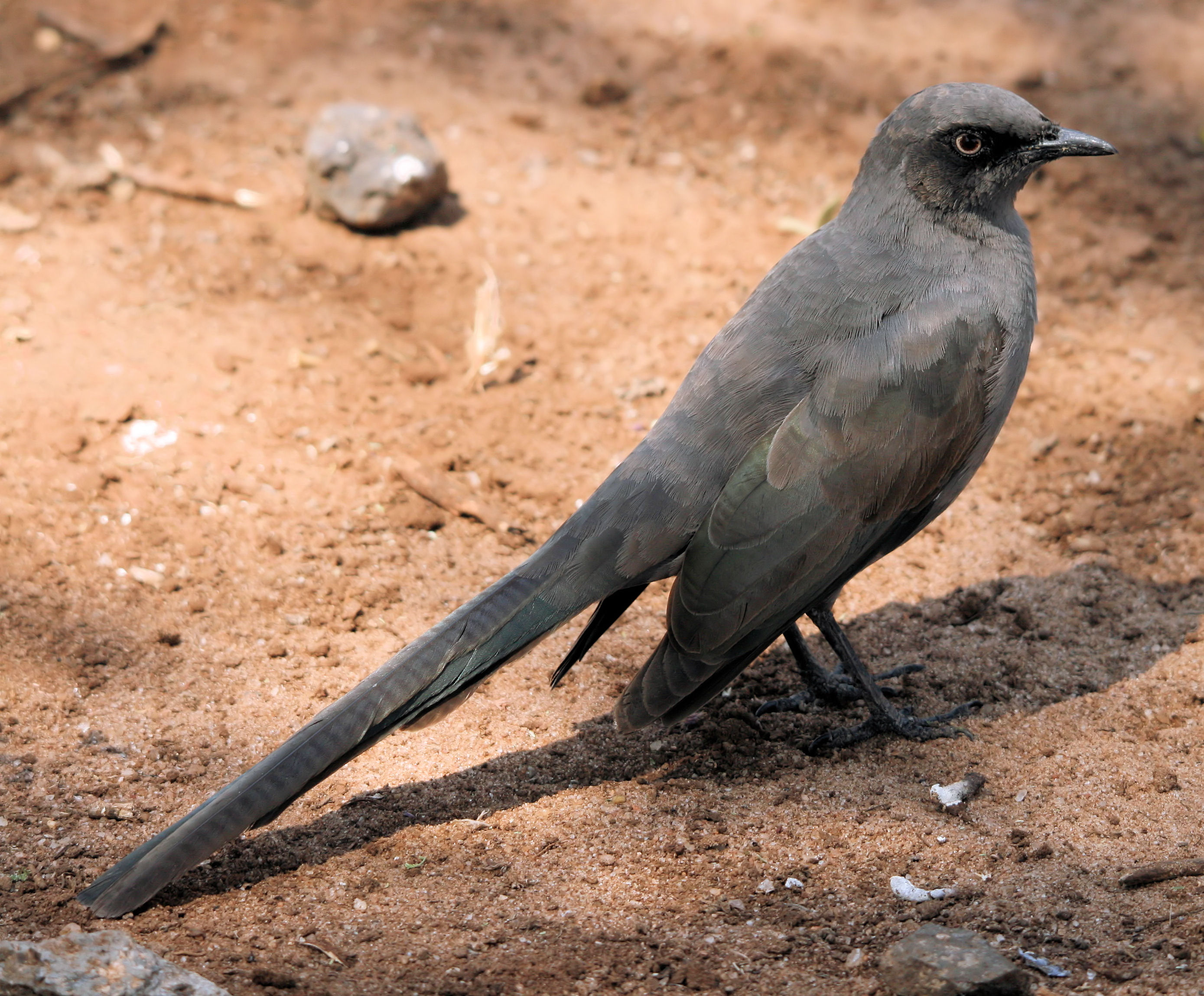 Ashy Starling (Cosmopsarus unicolor), picture taken in Tarangire National Park, Tanzania